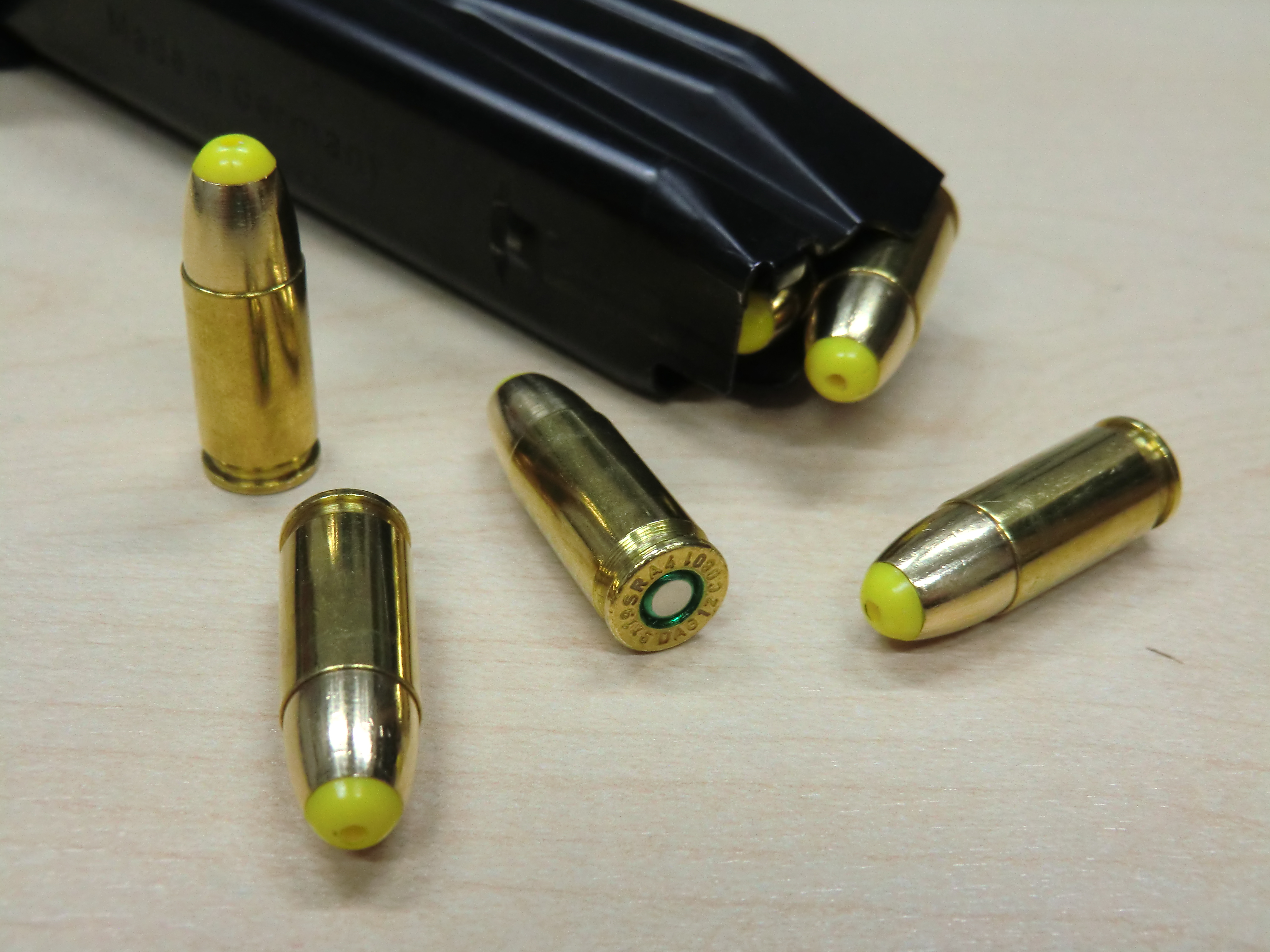 RUAG Action 4 9mm Parabellum